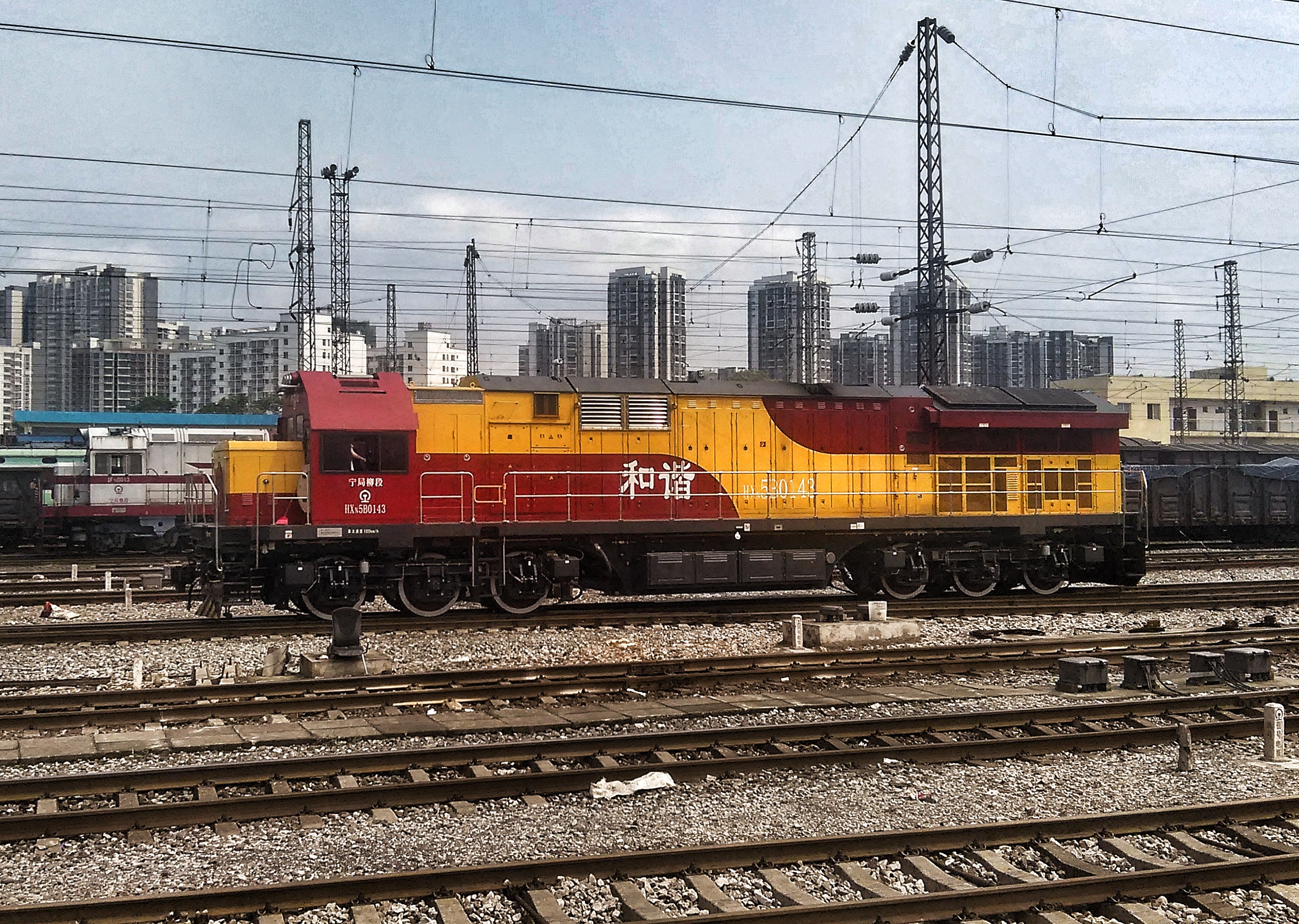 China Railways HXN5B 0143 in Liuzhou South Railway Station. The locomotive belongs to Liuzhou Locomotive Depot, Nanning Railway Bureau.